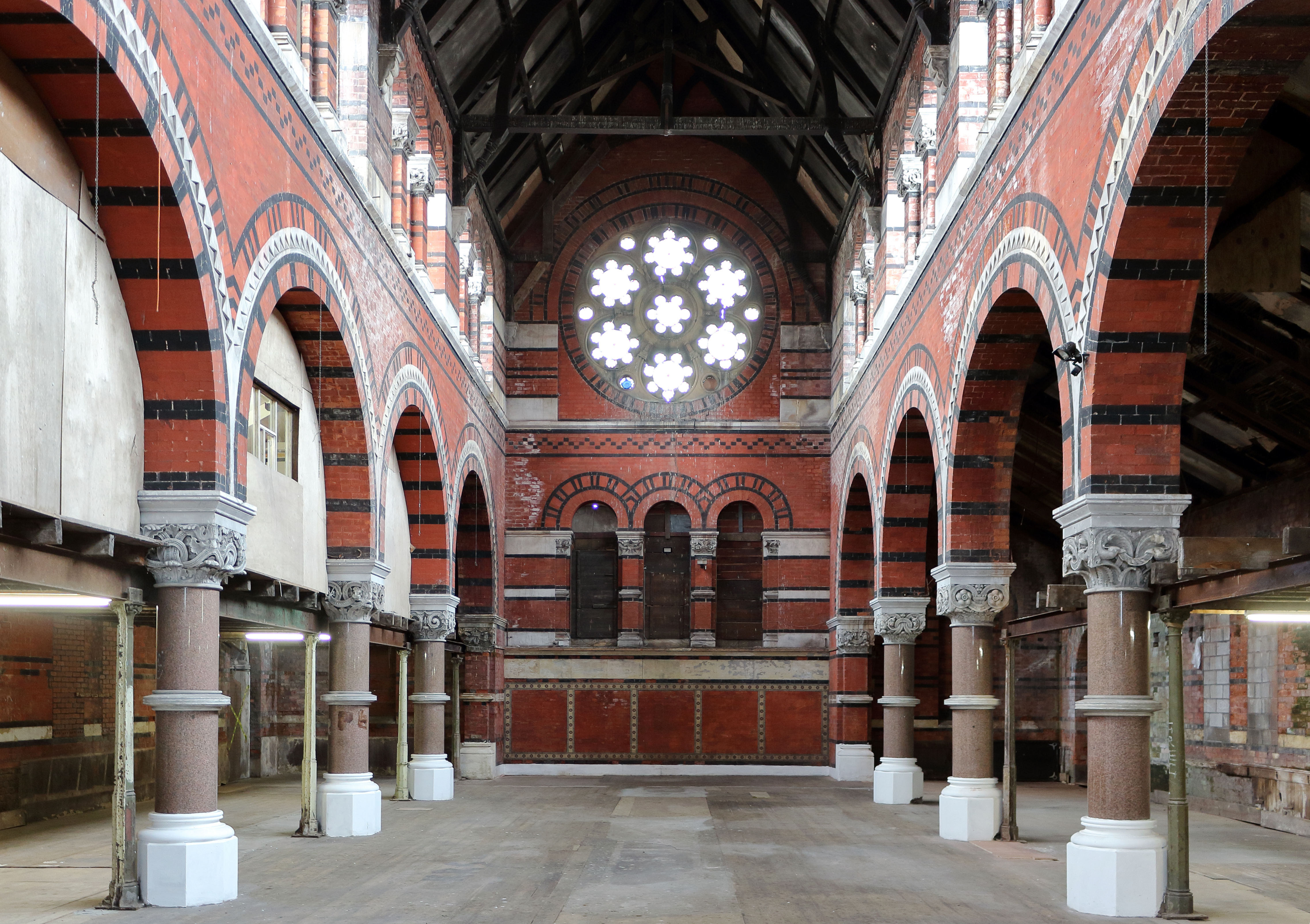 View west towards the rose window along the nave, with marble columns